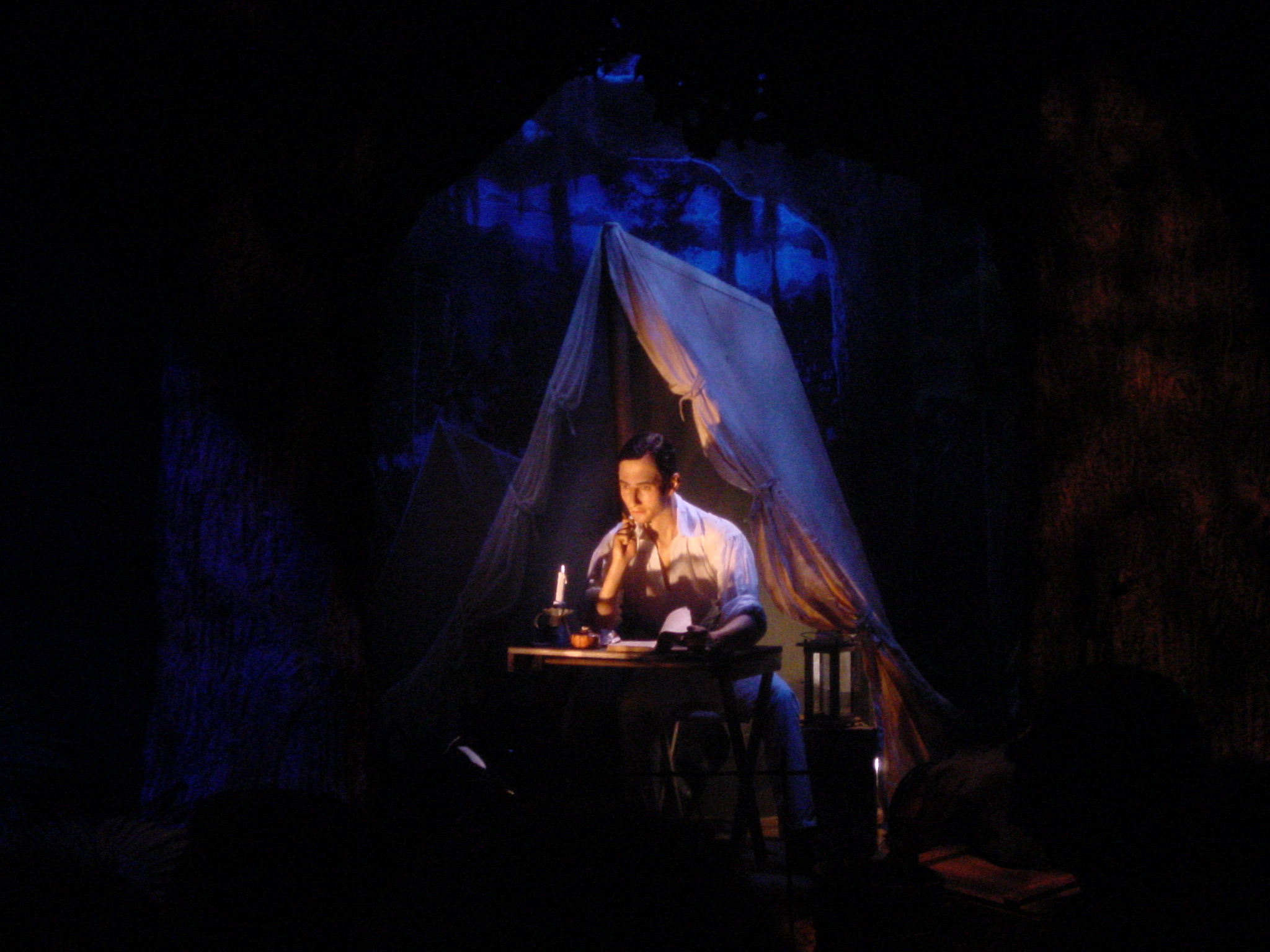 A look at a scene in Coacoochee's Story Theater at the Tampa Bay History Center in Tampa, Florida.